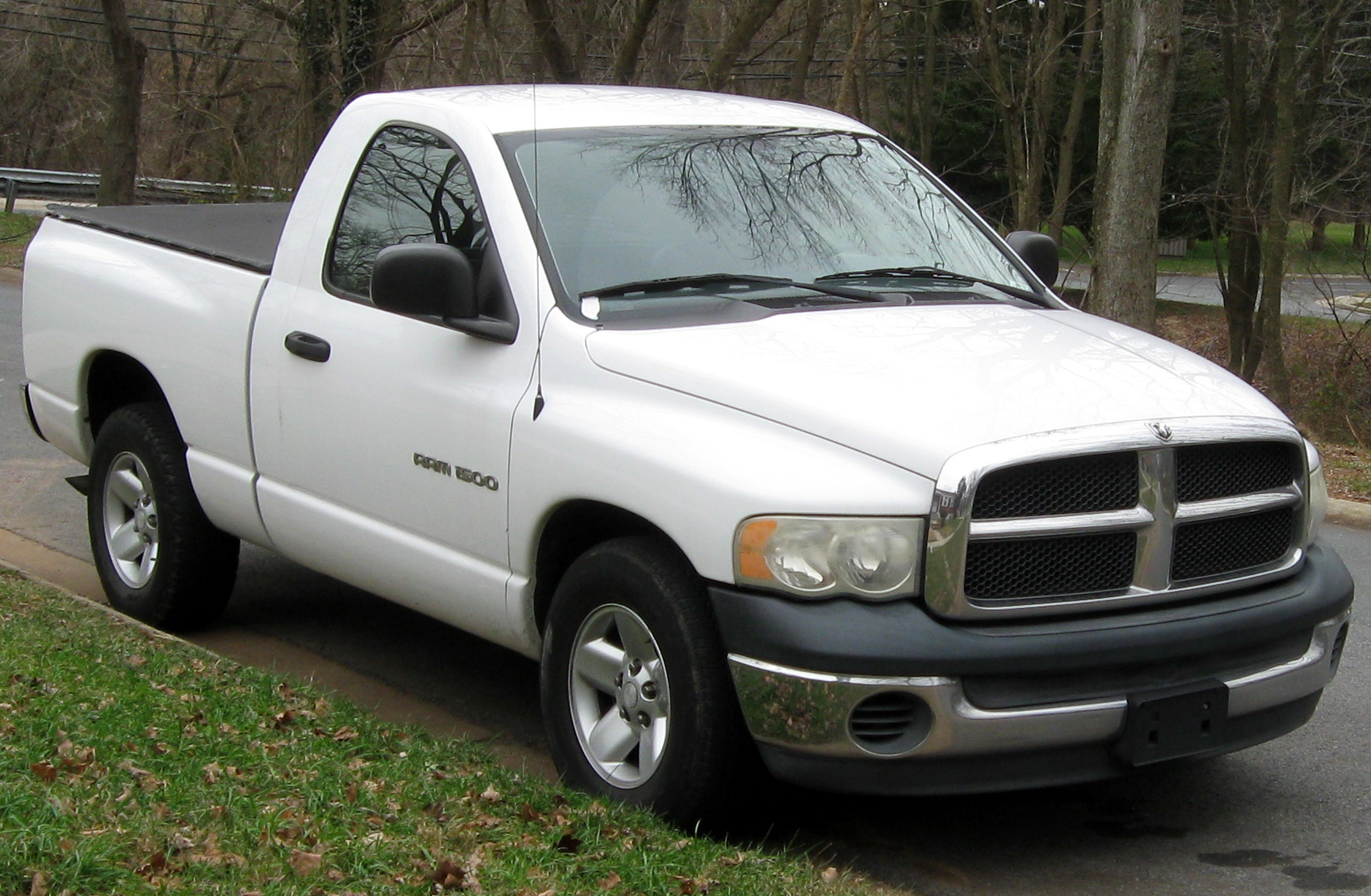 2002-2005 Dodge Ram photographed in Rockville, Maryland, USA.